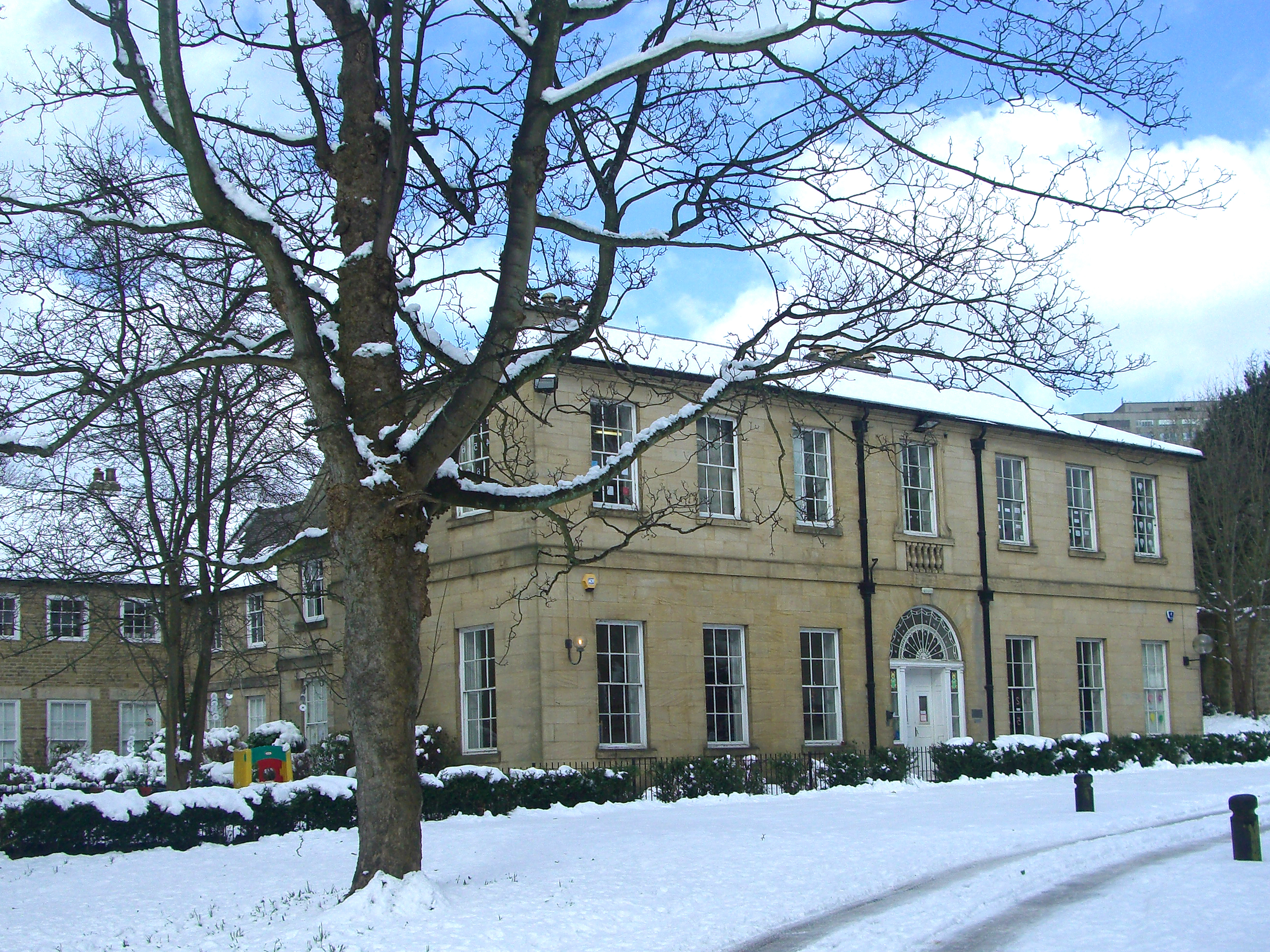 Broom Hall, a Grade II listed building in Sheffield, England, dating originally from the 16th century.